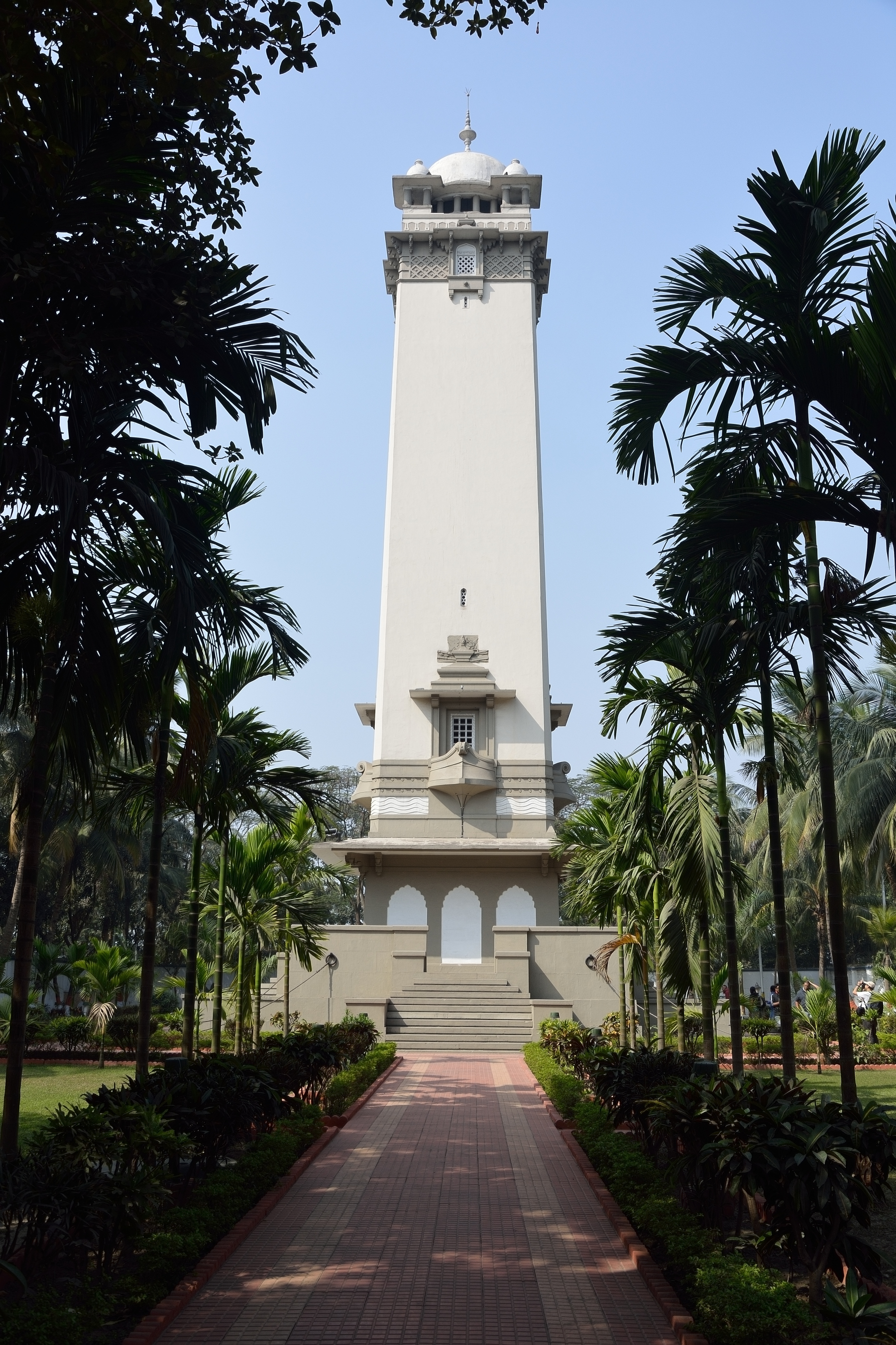 Lascar War Memoria in Kolkata.